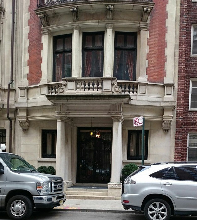 9 88th Street, NY, NY. 1964 - 1978, the address of Galerie Chalette, owned by Arthur & Madeleine Lejwa.